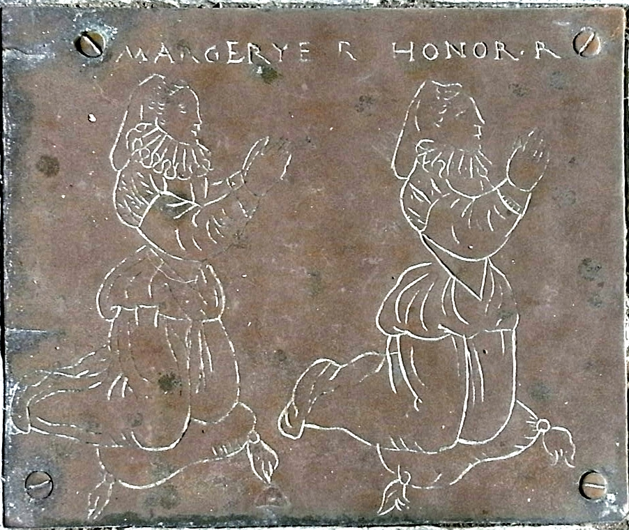 Monumental brass depicting the daughters of John Rolle (d.1570) of Stevenstone: "Margerye R" and "Honor R". St Giles in the Wood Church, Devon